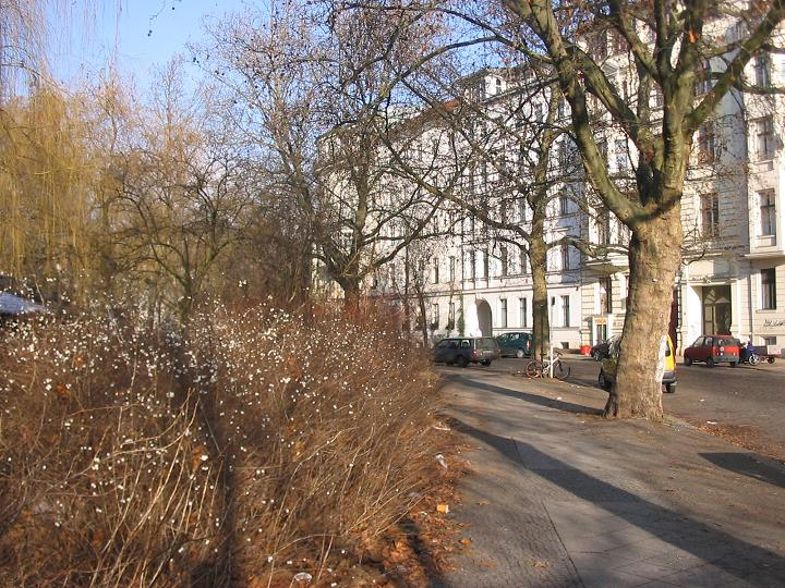 Wassertorplatz („Water-gate-place“ :-)) in Berlin-Kreuzberg. Place at „Erkelenzdamm“ with buildings by wilhelminian style.